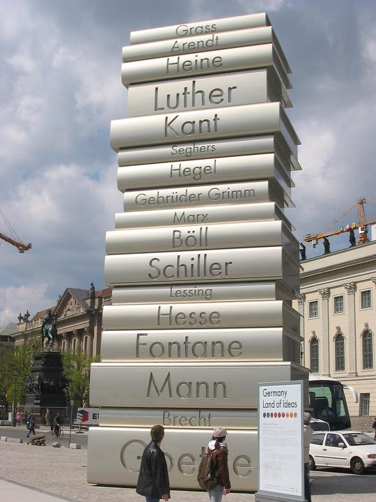 „Modern Book Printing“, fourth sculpture (from six) of the Berliner Walk of Ideas on the occasion of 2006 FIFA World Cup Germany. Unveiling: 21 April 2006 at Bebelplatz between Staatsoper Unter den Linden and Alte Bibliothek.